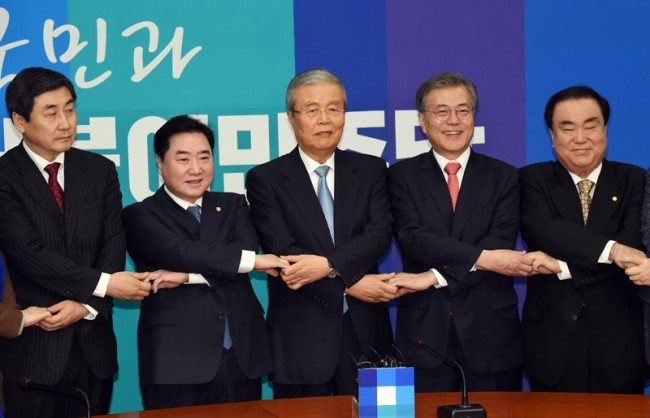 Kim Jongin's press conference in 2016